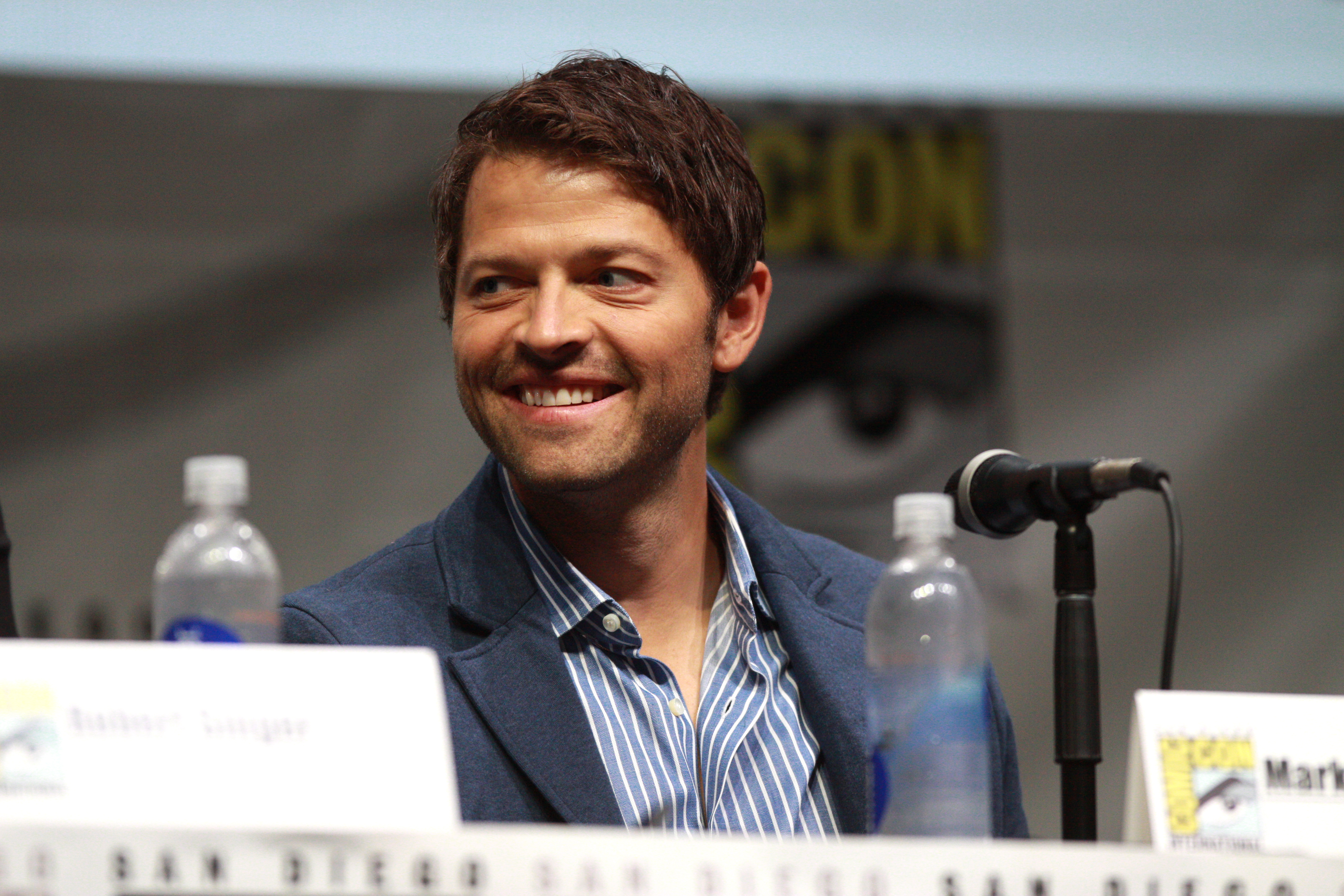 Misha Collins speaking at the 2013 San Diego Comic Con International, for "Supernatural", at the San Diego Convention Center in San Diego, California.